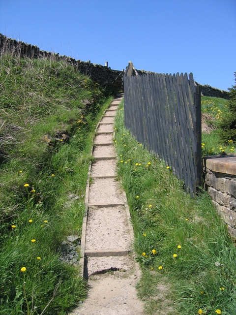 Path to Ingleborough behind Horton in Ribblesdale Station This wooden shuttered concrete path climbs uphill heading for Ingleborough from the southern end of Horton in Ribblesdale Station. In descent, the path is the last difficult part of the 24 mile Yorkshire Three Peaks walk as walkers descend from Ingleborough. Once across the rail track, behind the camera, the last part of the walk back to the Pen-y-ghent Cafe is all on tarmac.